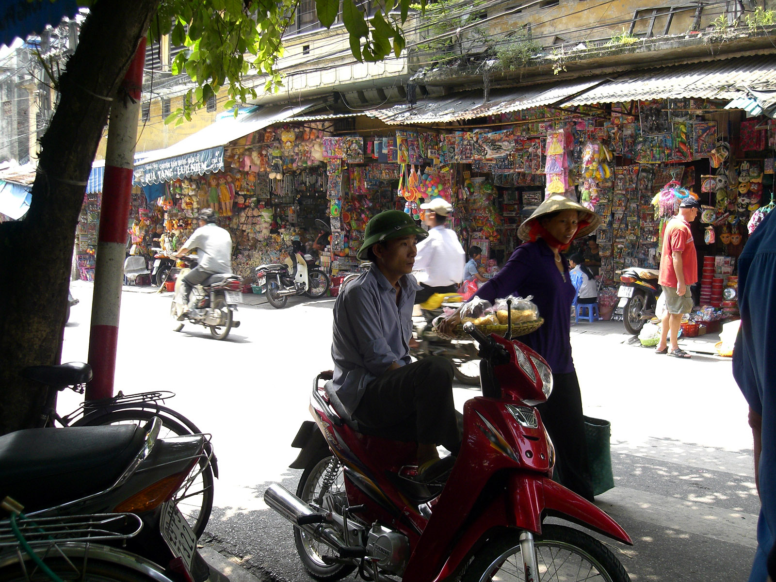 Vietnam, Hanoi, French Quarter, Old Quarter, Center, Centre, Downtown, Shops, Street Life